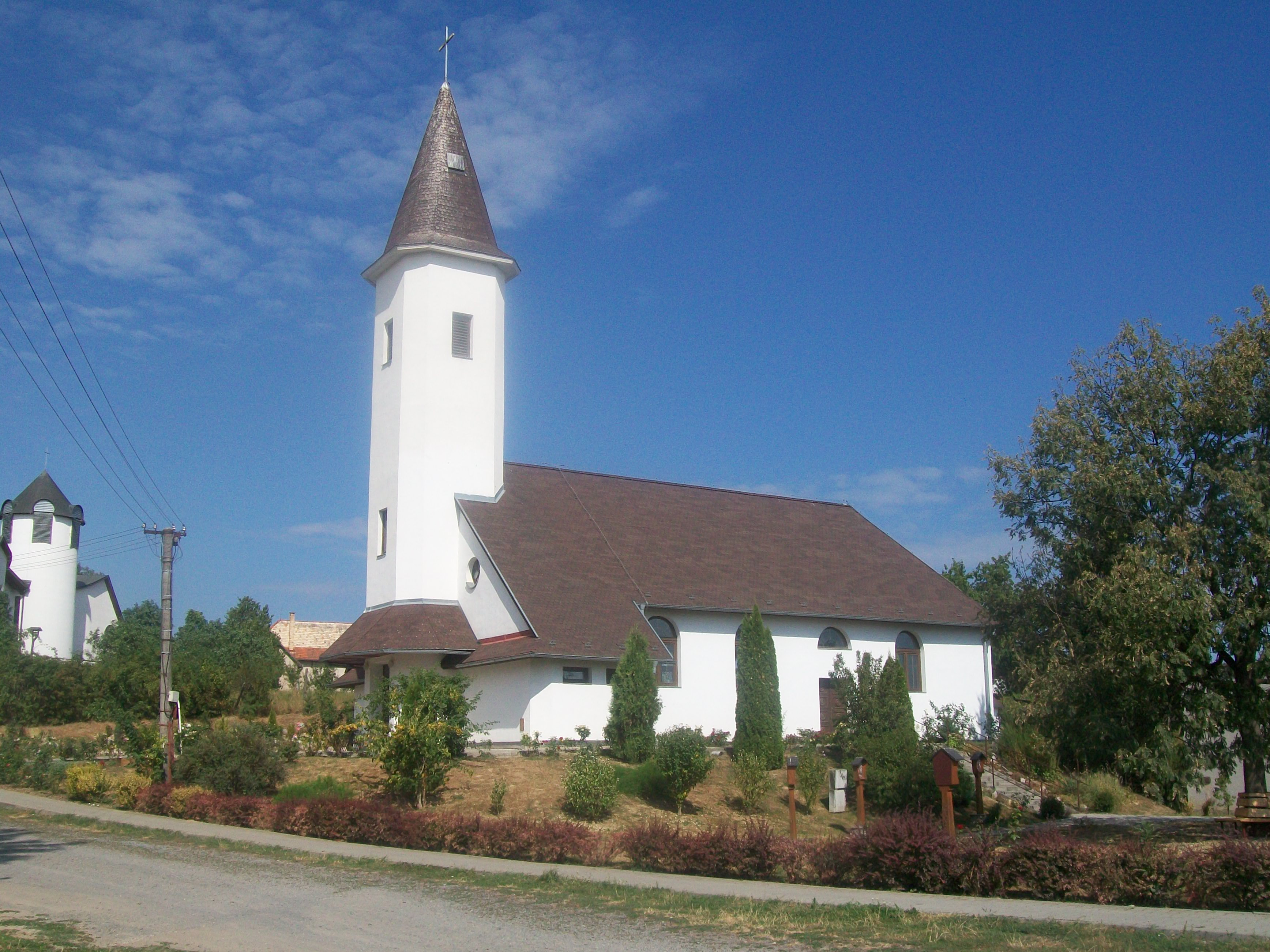 Roman Catholic Church of Saints Peter and Paul in Tomášovce